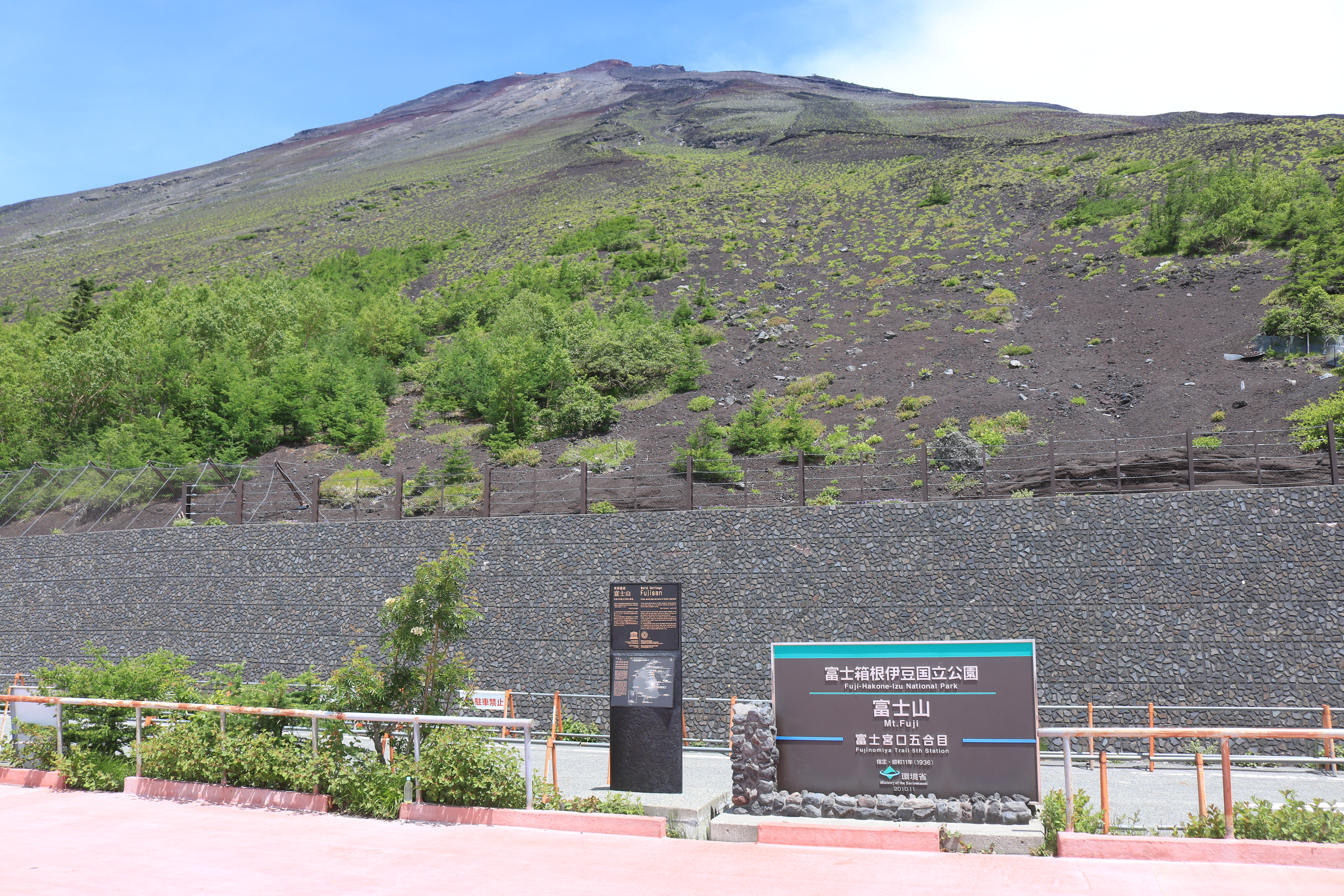 Mount Fuji seen and Signage of Fuji-Hakone-Izu National Park seen from Fujinomiyaguchi (Fujinomiya Route) in Shizuoka Prefecture, Japan.